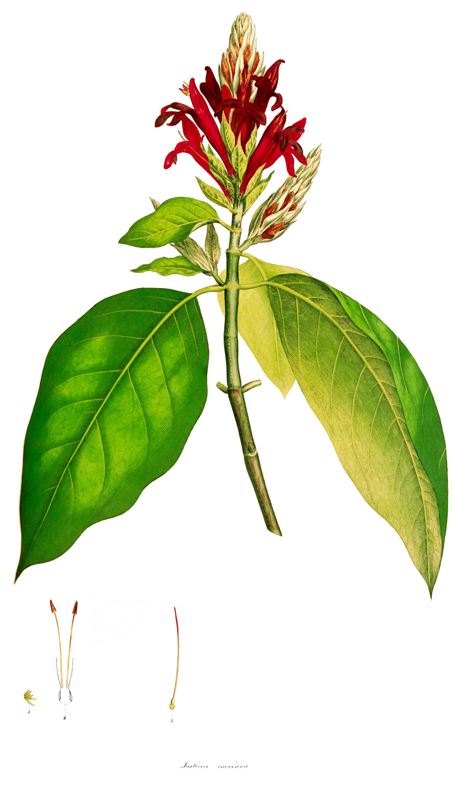 Plate from book